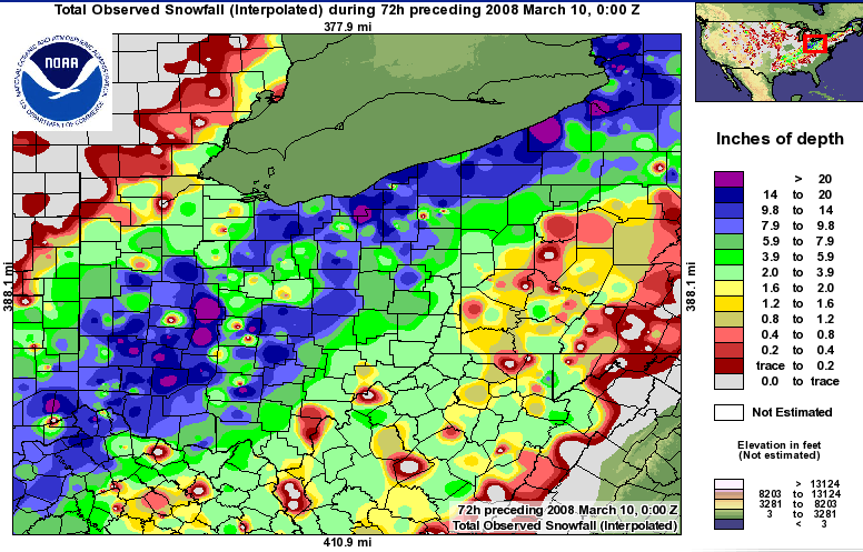 North American blizzard of 2008, snowfall accumulation map. Courtesy of the National Weather Service